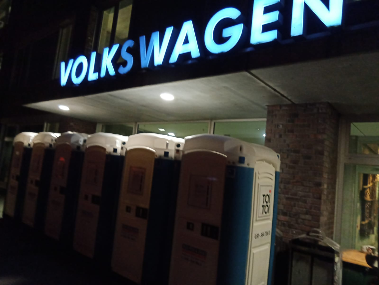 Mobile toilets at the entrance to the TU Berlin library, Fasanenstraße 88, Berlin